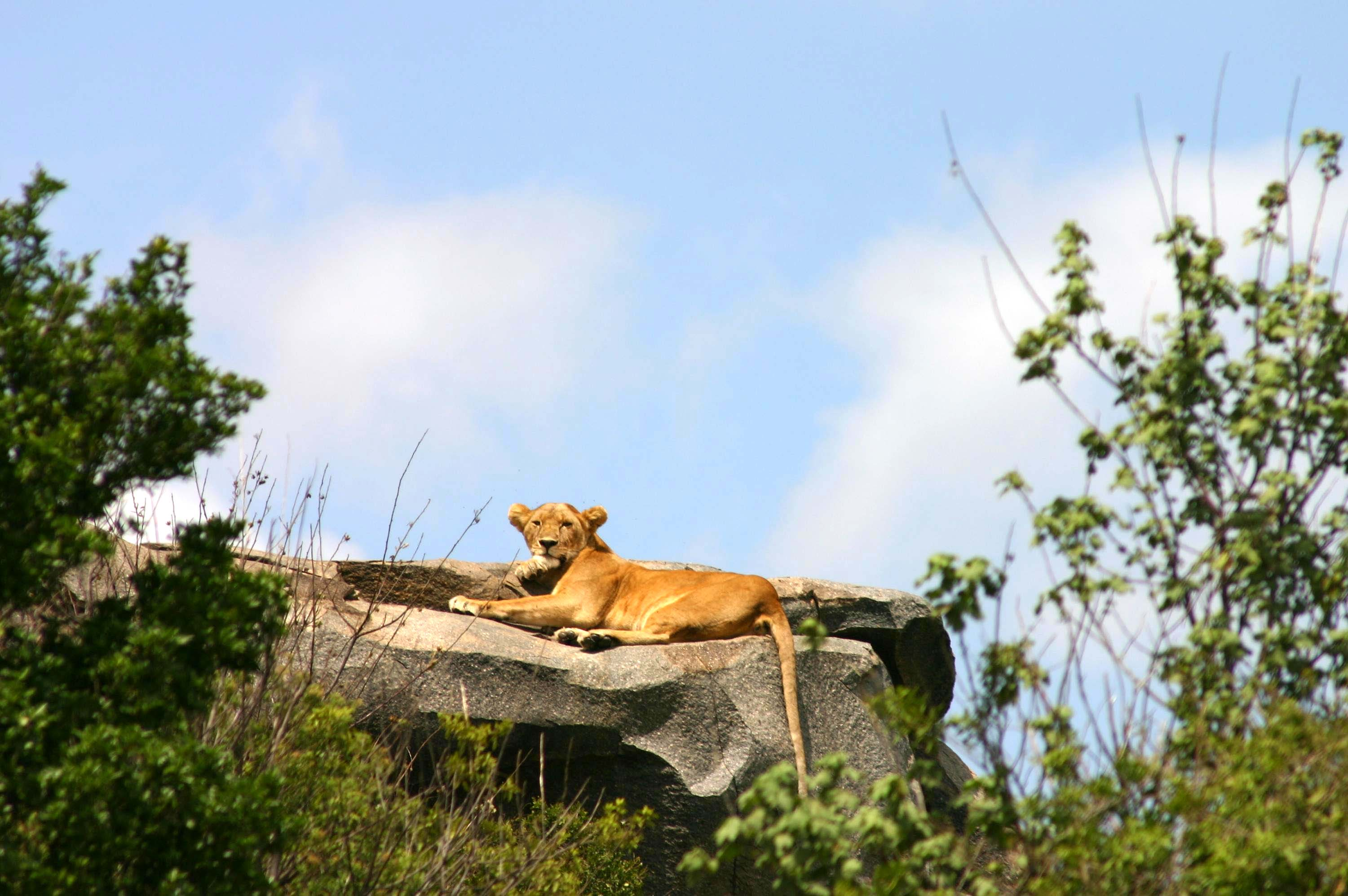 Adult Lioness in the Serengeti National Park, Tanzania